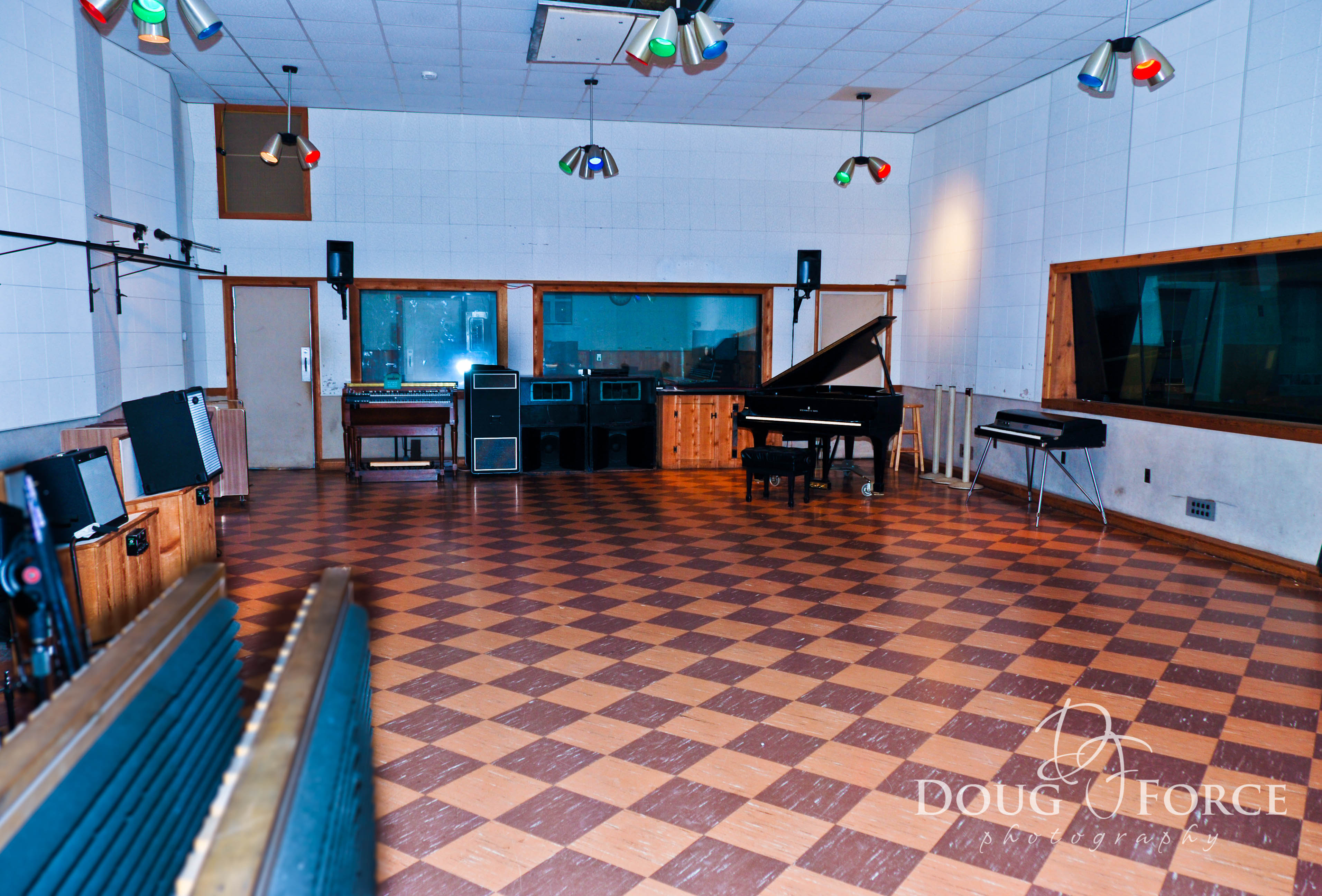 Inside photo of RCA Studio B. Photo by Doug Force, 2014.